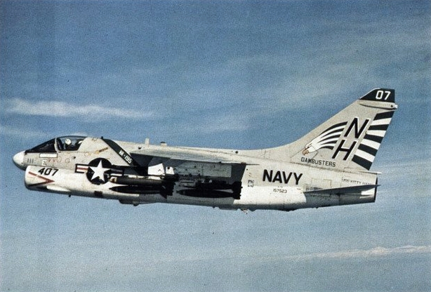 A U.S. Navy McDonnell Ling-Temco-Vought A-7E-7-CV Corsair II (BuNo 157523) from Attack Squadron 195 (VA-195) "Dambusters" in flight. VA-195 was assigned to Attack Carrier Air Wing 11 (CVW-11) aboard the aircraft carrier USS Kitty Hawk (CVA-63) for a deployment to Vietnam from 17 February to 28 November 1972. The A-7E 157523 was finally retired to the AMARC as 6A0202 on 15 September 1986.